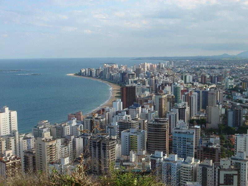 Praia da Costa. Neighborhood at Vila Velha, brazilian city.